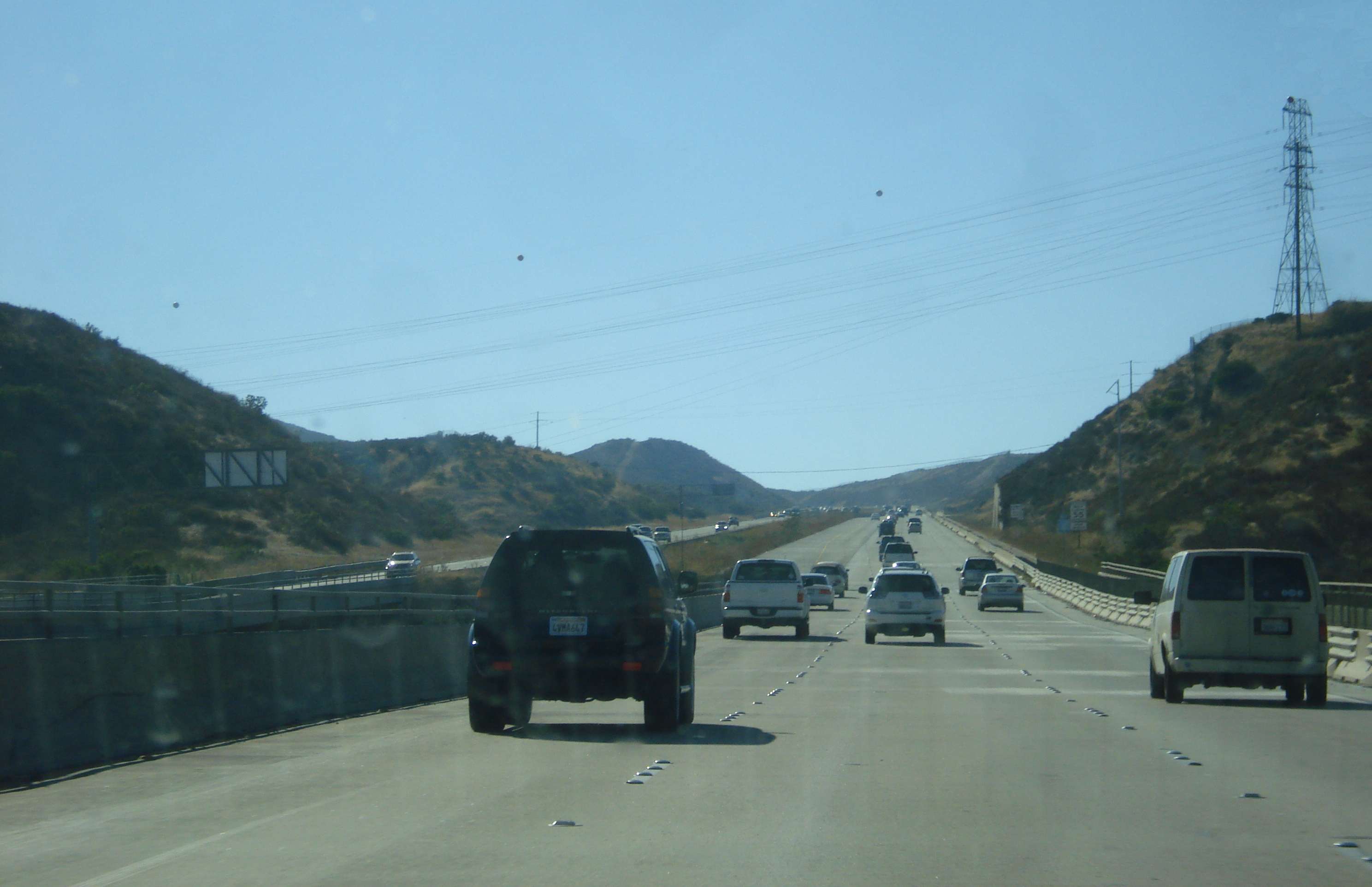 CA SR 52 as it nears I-15